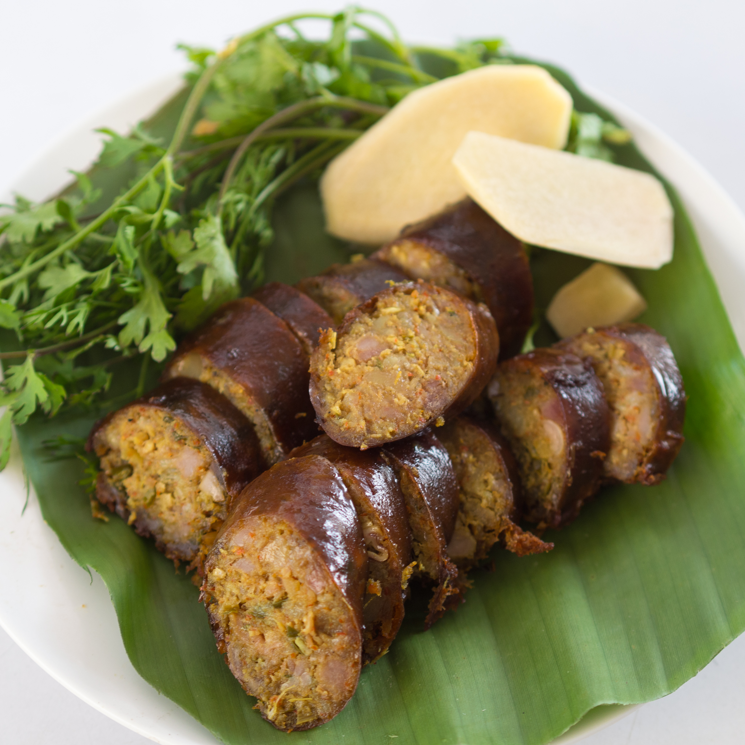 Slices of sai ua served with fresh ginger and coriander